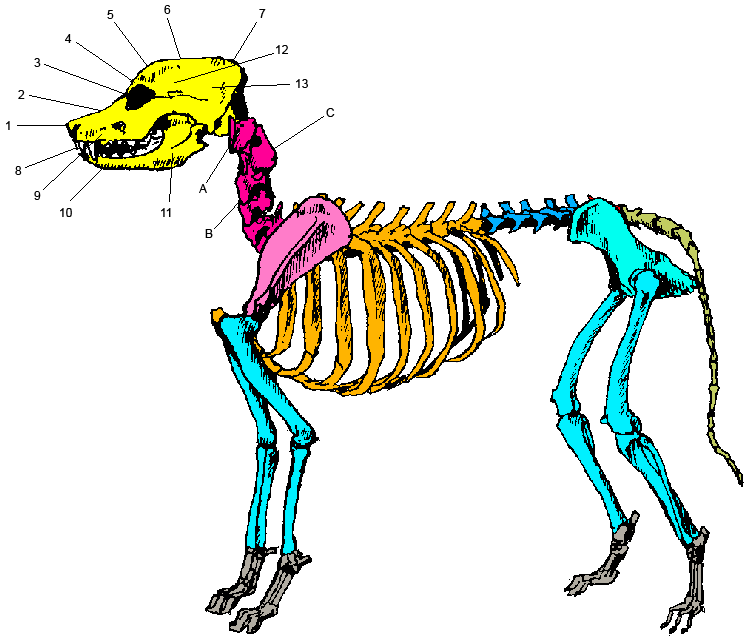 Dog skelton, head and neck section with numbers